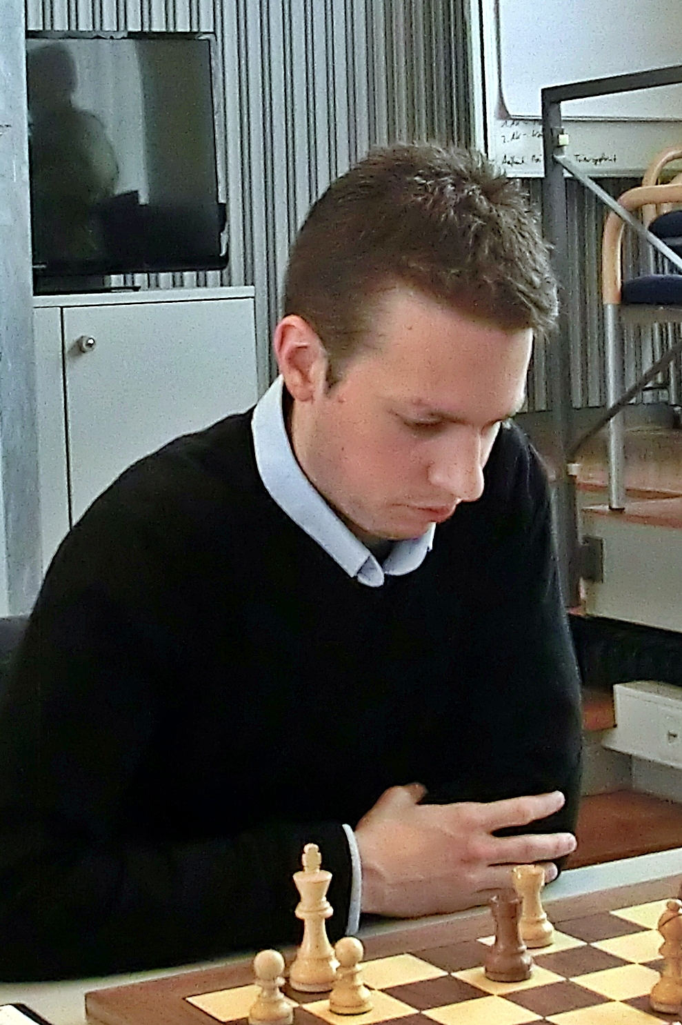 Daniel Stellwagen, chess grandmaster from the Netherlands